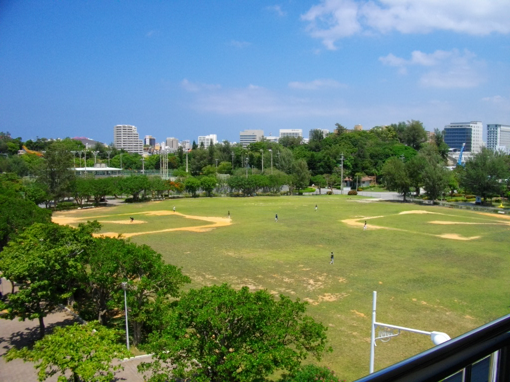 Ounoyama Park